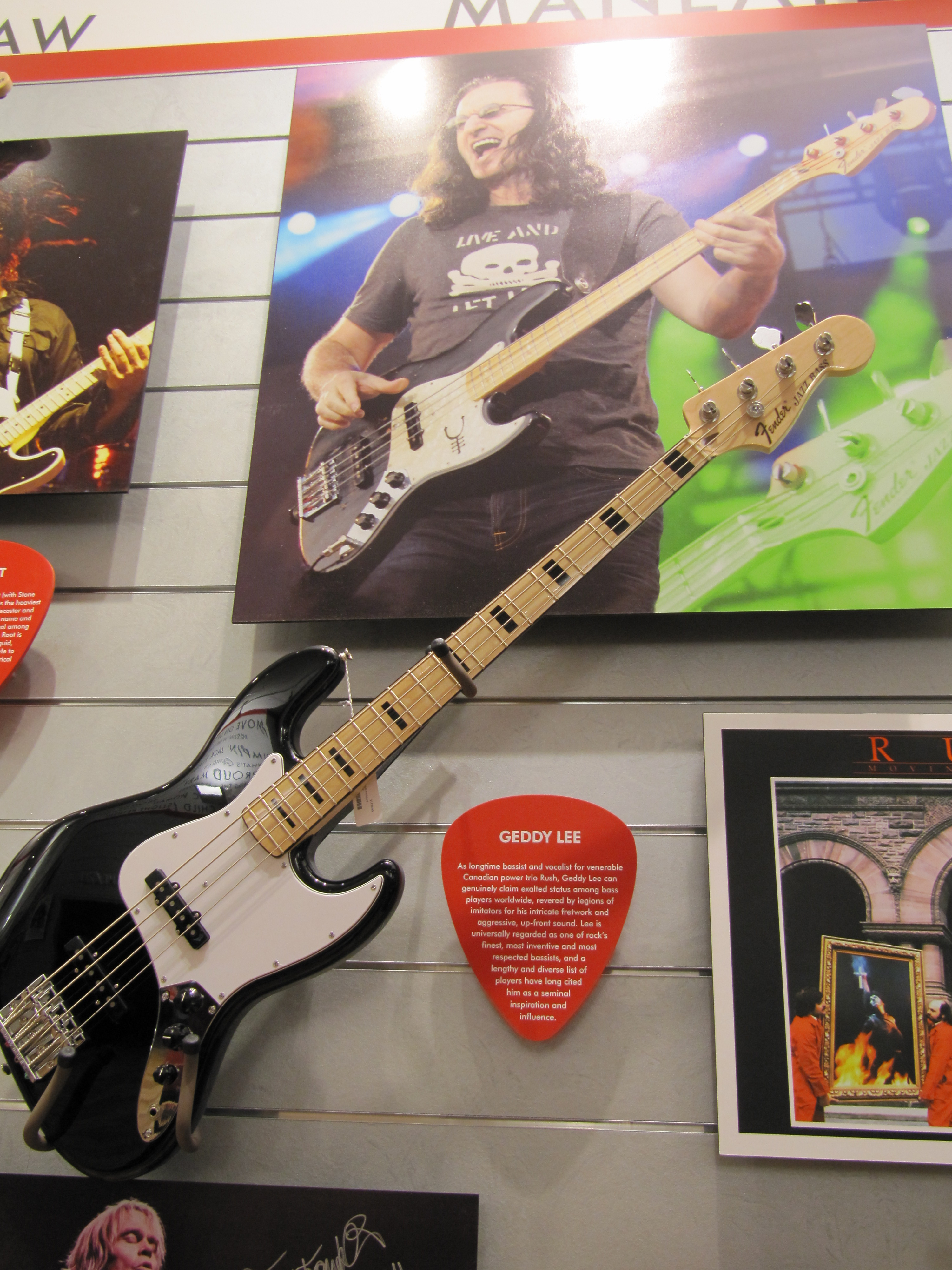 Fender Guitar Factory museum 10. Geddy Lee bass model